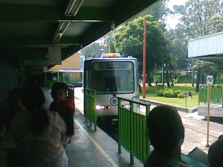 Train on Mexico City's Xochimilco light rail line, the Tren Ligero (light rail) line.